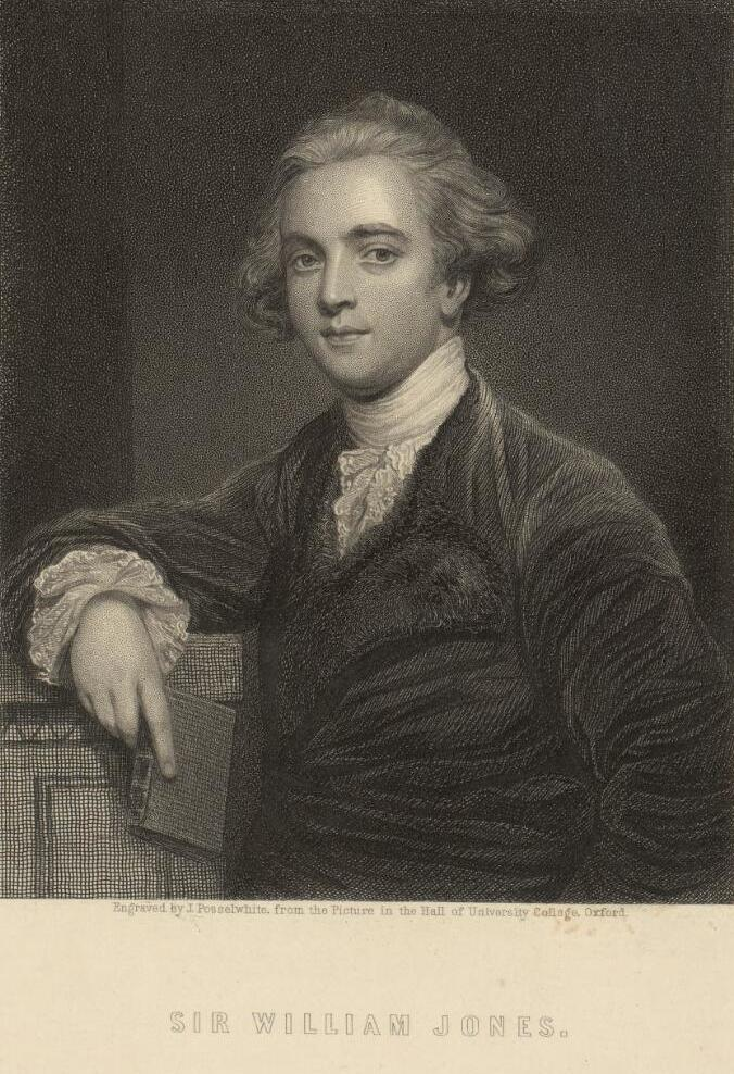 A portrait from the Welsh Portrait Collection at the National Library of Wales. Depicted person: William Jones – Anglo-Welsh philologist and scholar of ancient India